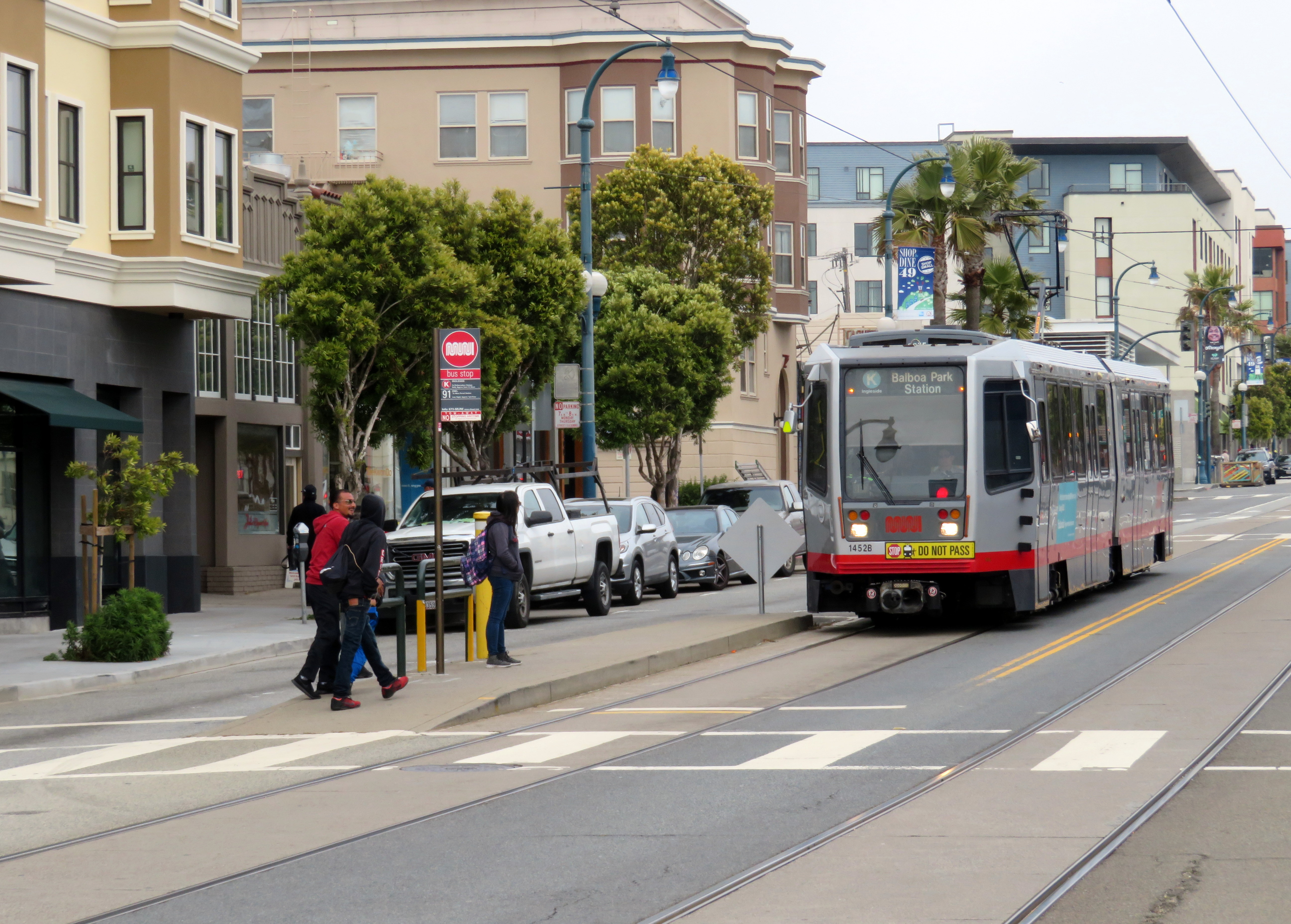 Inbound train at Ocean and Miramar in May 2018